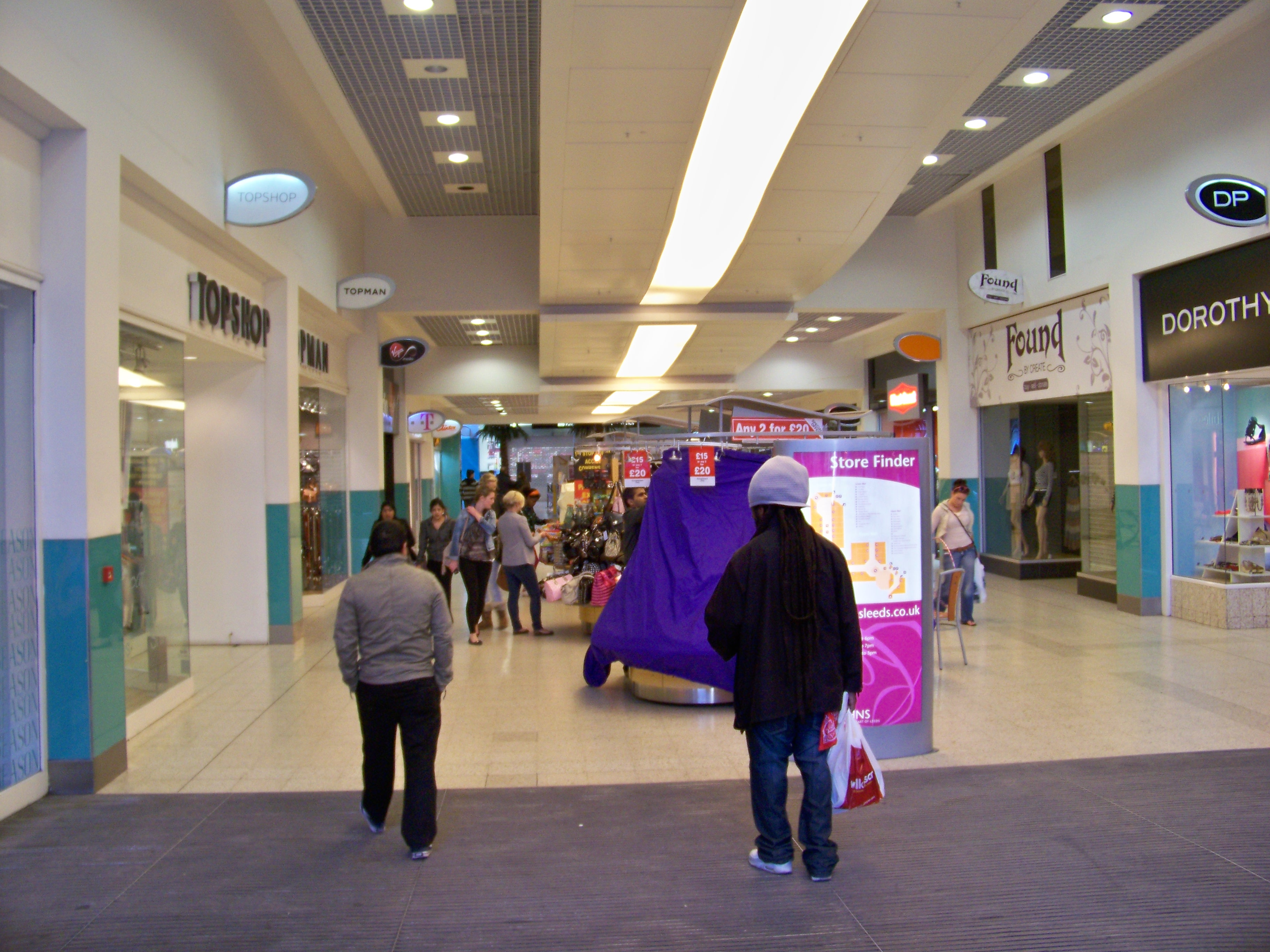 The interior of the St John's Centre in Leeds, West Yorkshire (looking away from the entrance from Dortmund Square). Taken on the afternoon of Monday the 11th of April 2011.